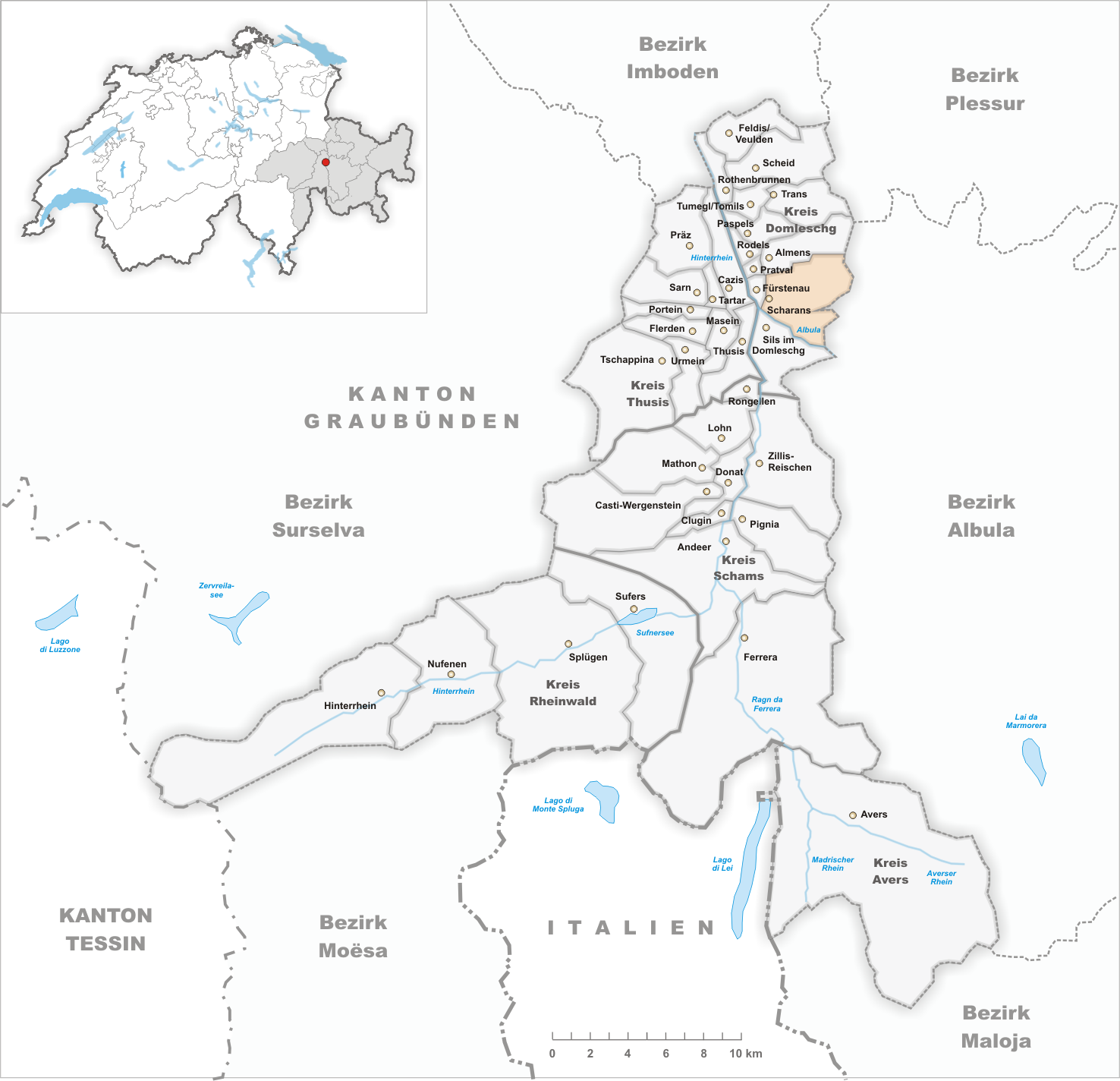 Municipality Scharans